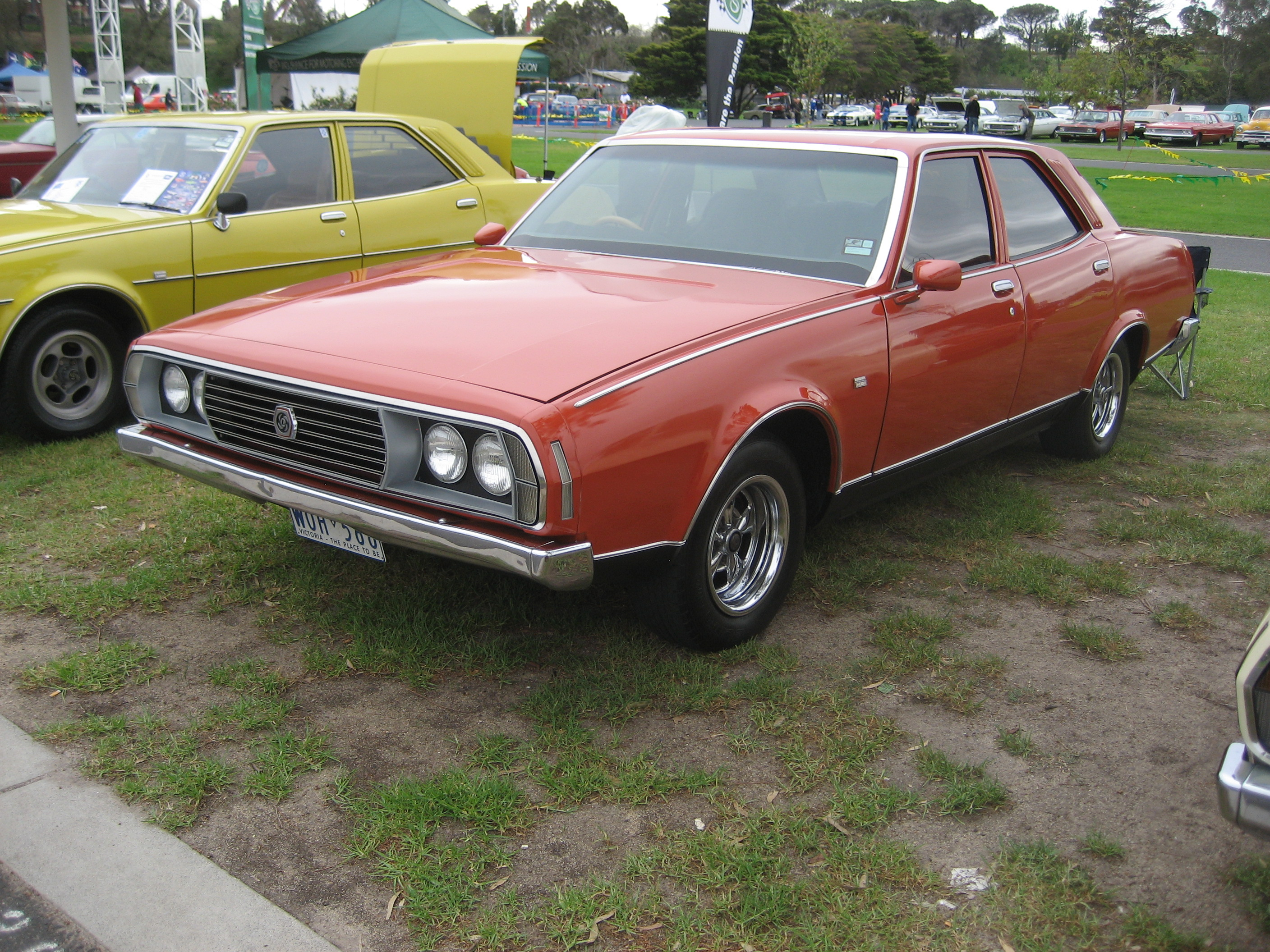 Built from 1973-75 Engines; 2623 6 cyl or 4416 V8 Super got Bucket seats, console, woodgrain dash, 4 headlights etc over Deluxe